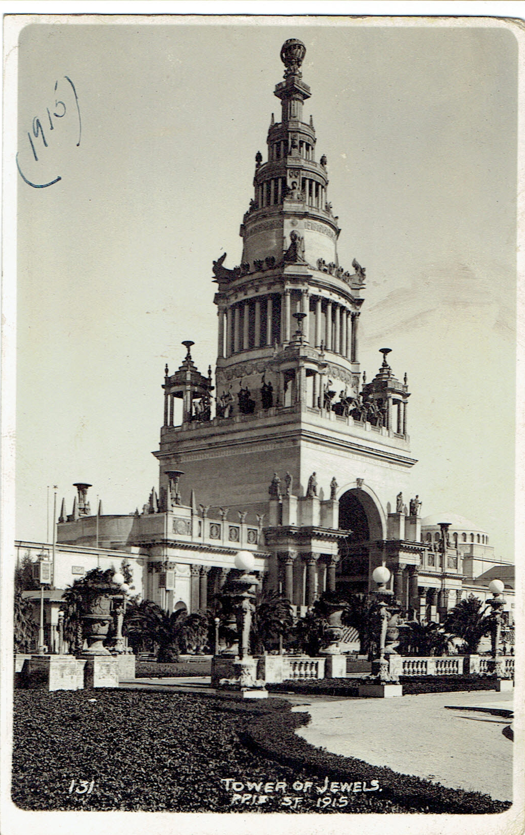 The Tower of Jewels a building at the Panama-Pacific International Exposition, the 1915 world's fair held in San Francisco, California.